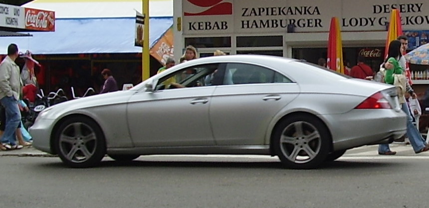 Mercedes-Benz C219 in Międzyzdroje (Poland)